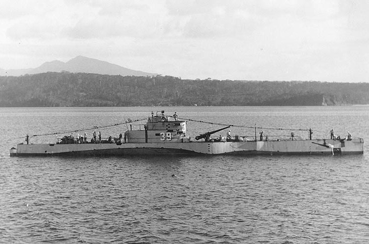 USS S-39 (SS-144) Off Olongapo, Philippine Islands, 1935 - cropped This file is a work of a sailor or employee of the U.S. Navy, taken or made as part of that person's official duties. As a work of the U.S. federal government, it is in the public domain in the United States. This file has been identified as being free of known restrictions under copyright law, including all related and neighboring rights.